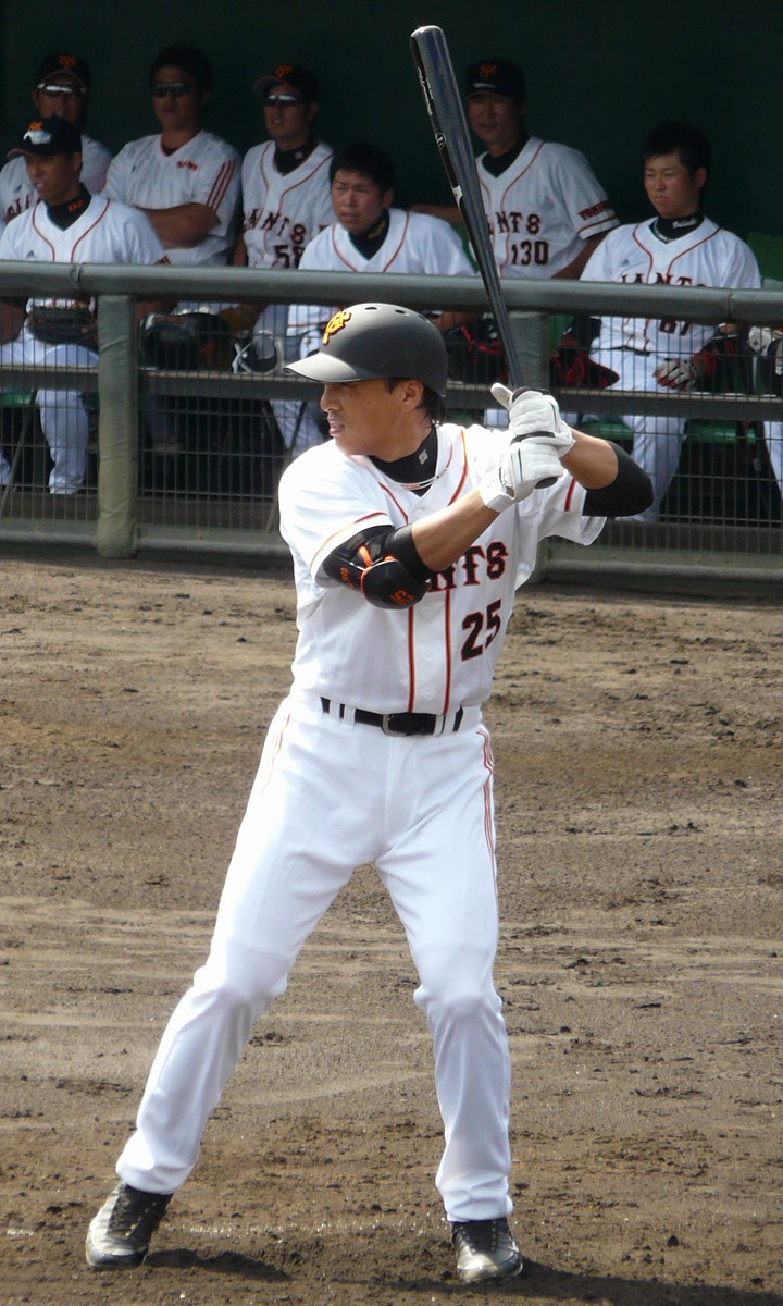 Seung-Yeop Lee, infielder of the Yomiuri Giants, at Yomiuri Giants Stadium.